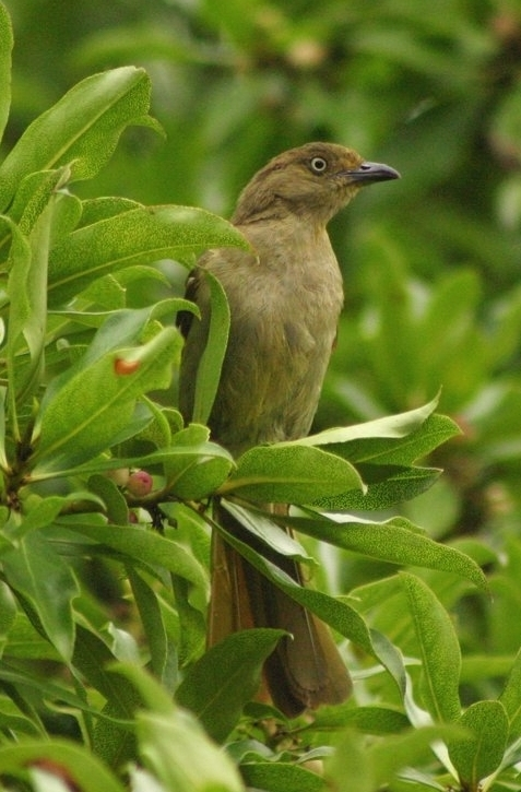 Sombre greenbul at Port Elizabeth, South Africa